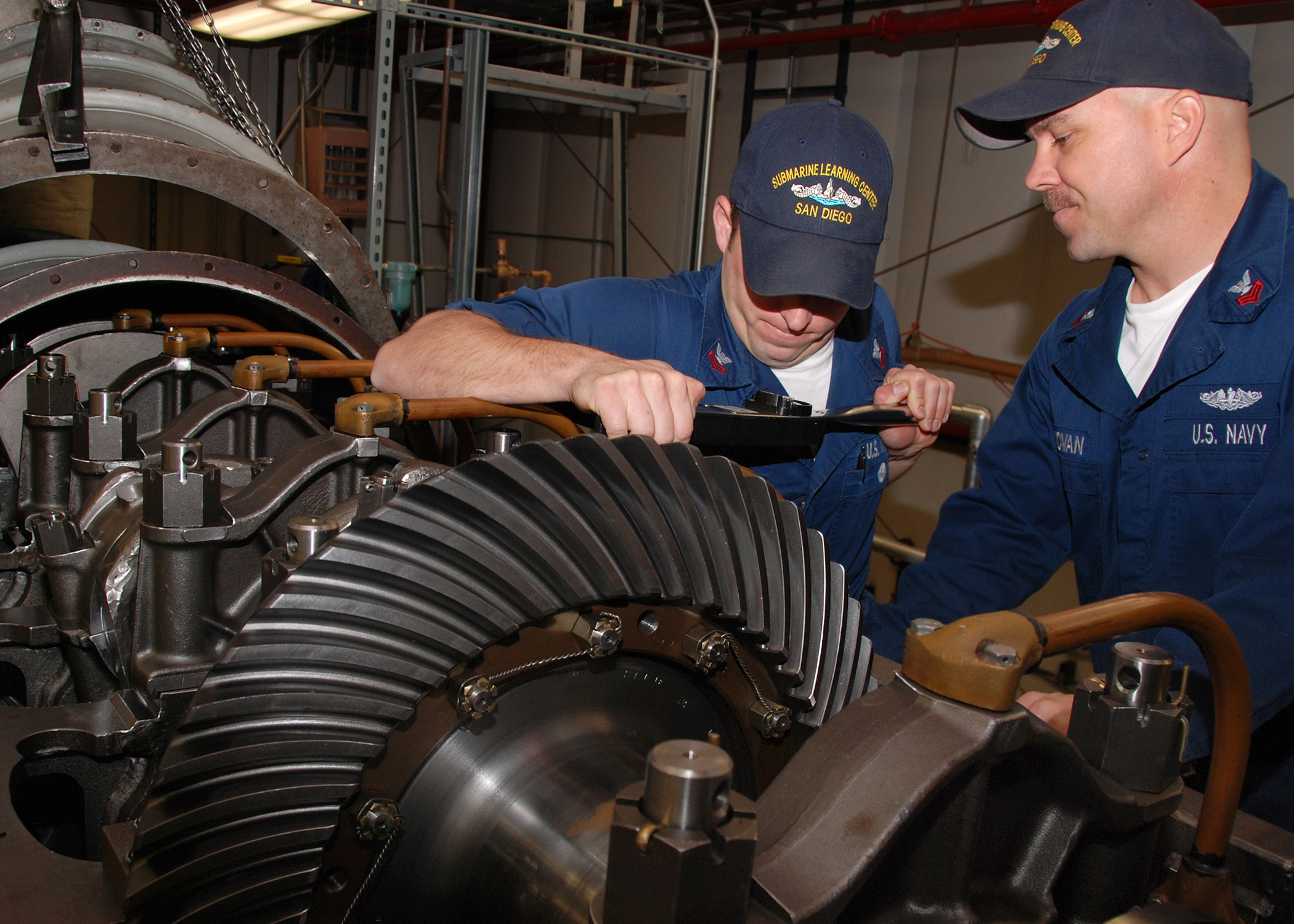 SAN DIEGO (Dec 8,2009) Machinist's Mates 1st Class David Donovan and Ryan MacNail adjust the connecting rod cap on a Fairbanks Morse diesel generator trainer. (U.S. Navy photo by Mass Communication Specialist 2nd Class Eric Lopez/Released)